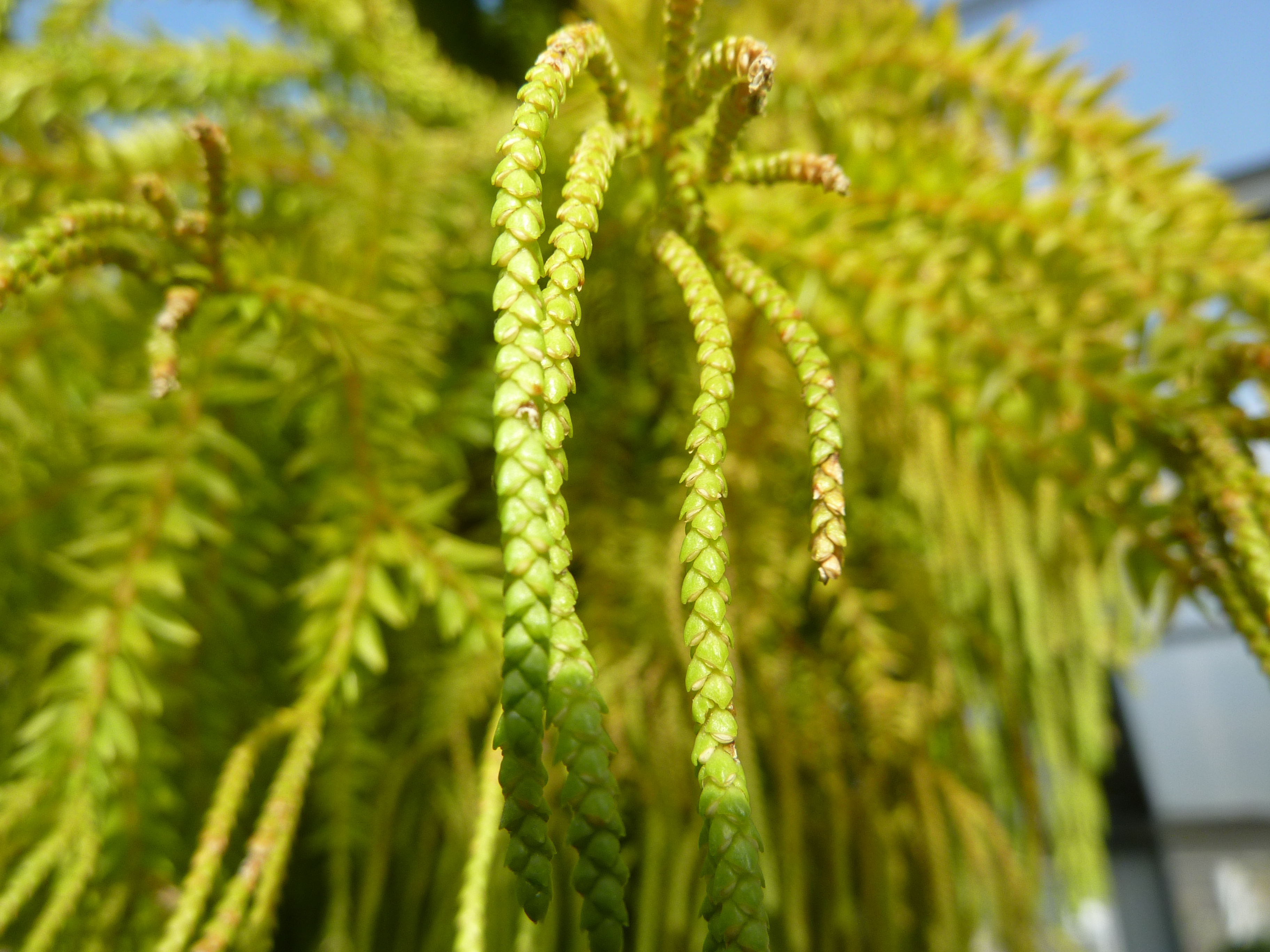 Taken in the Cambridge University Botanic Garden.